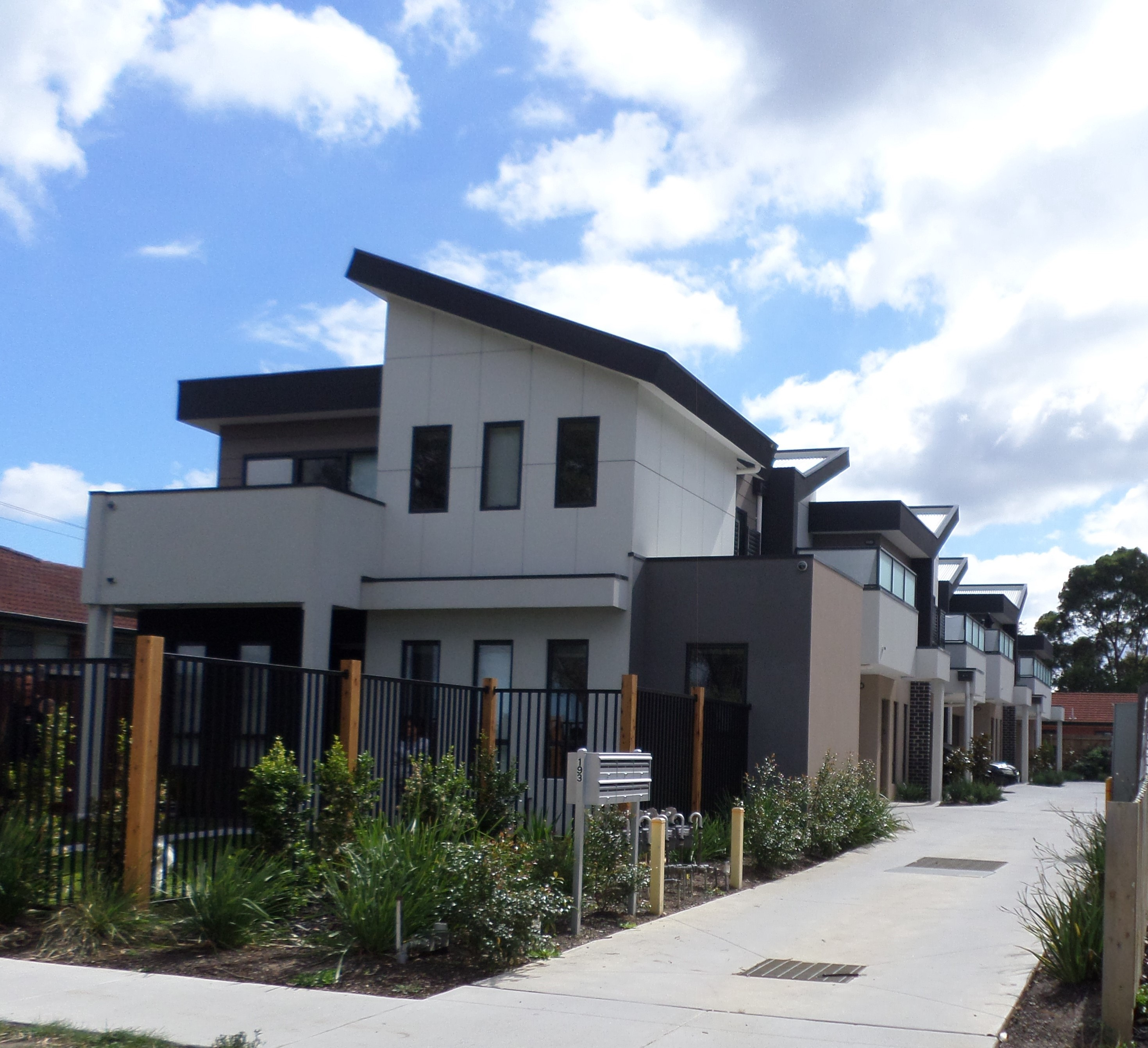 A photograph of Townhouses in Victoria, Australia